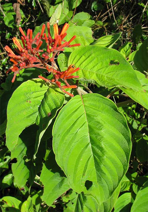 Hamelia patens flowering by a road. These plants are quite common.